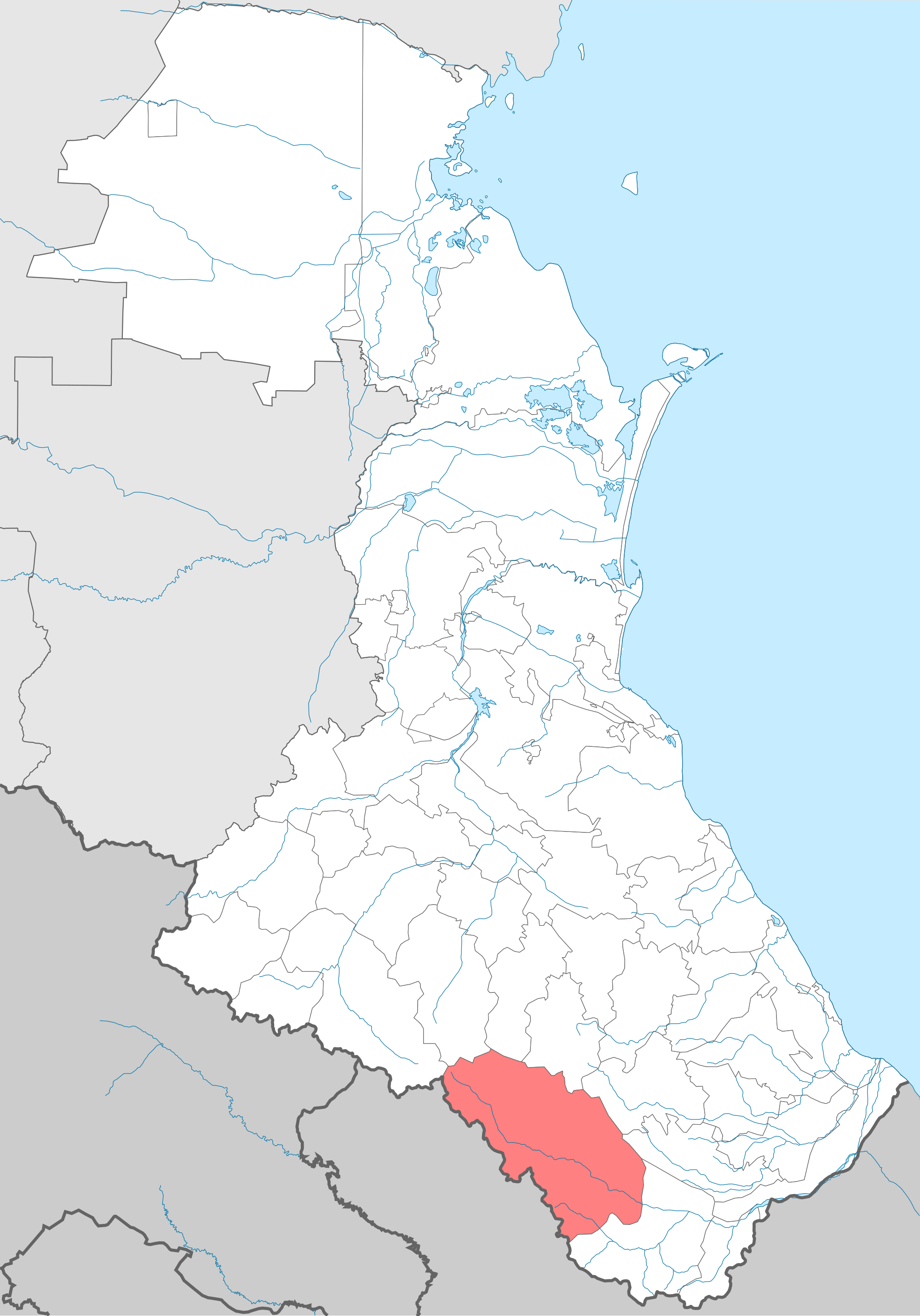 Rutulsky district locator map